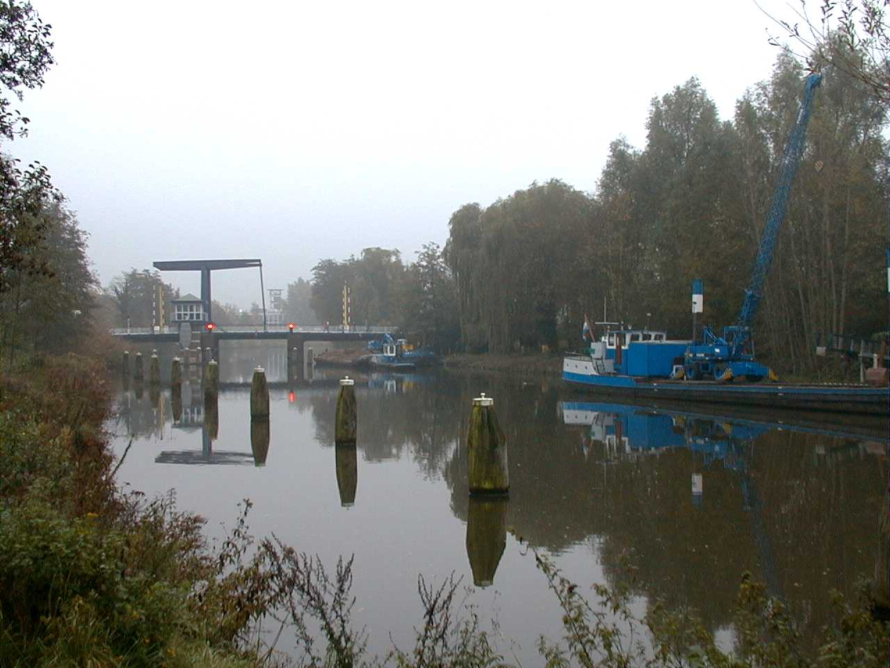 Bridge across the Oude IJssel in Doetinchem, the Netherlands